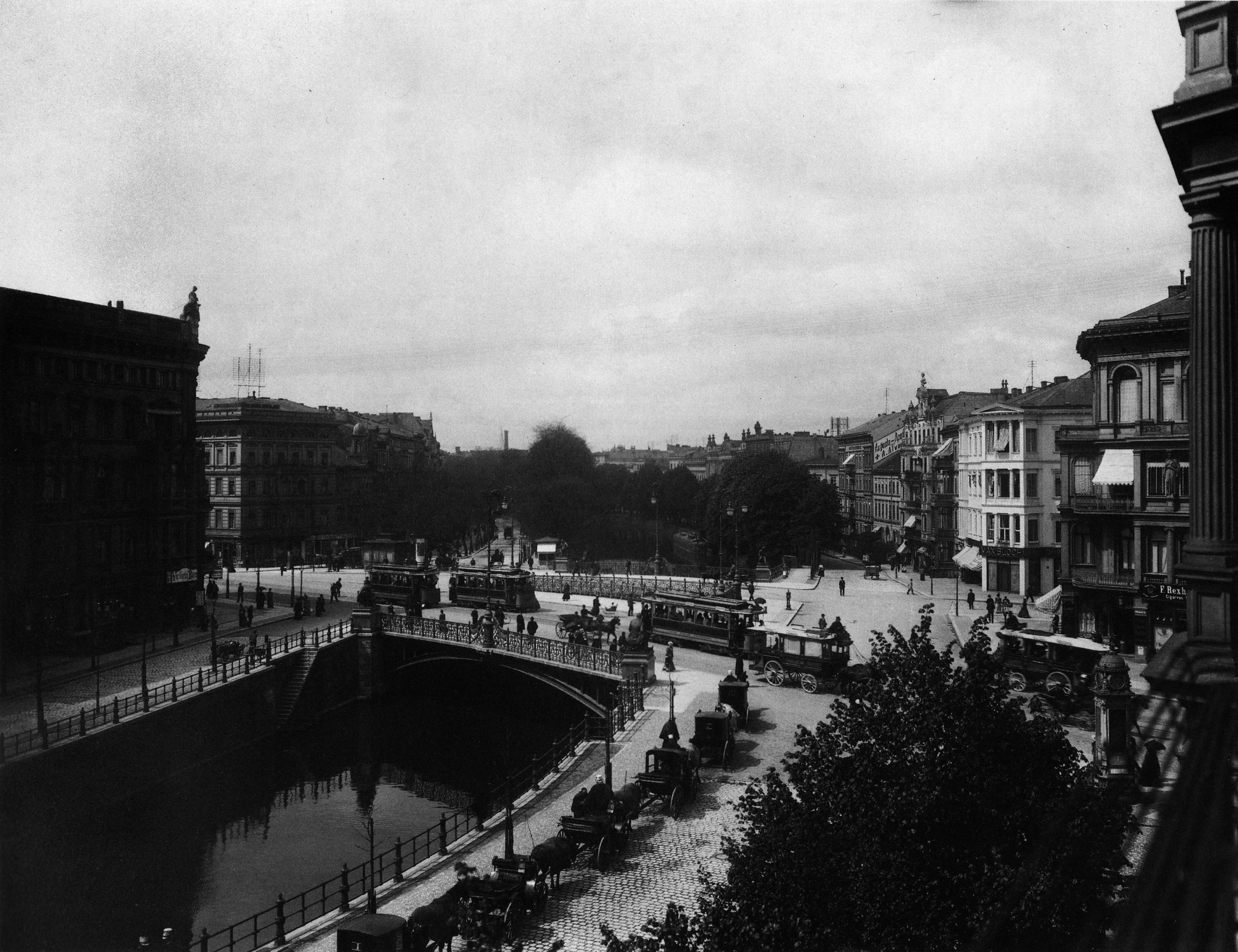 Potsdamer Brücke (“Potsdam bridge”) across Landwehrkanal in Schöneberger Vorstadt, Berlin (now in Tiergarten district), looking west.